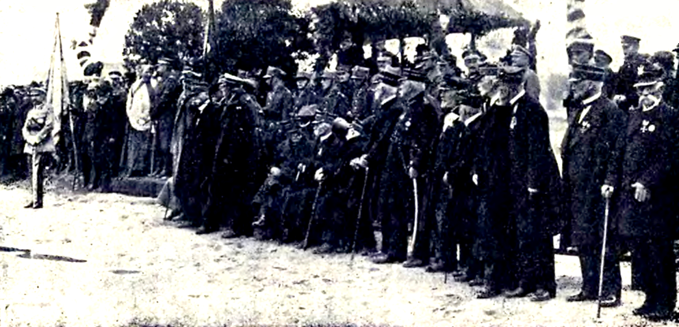 Order Virtuti Militari bestowing to January Uprising participants 1921